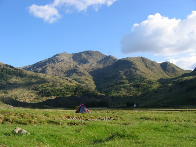 Campsite, Barrisdale. Alluvial flats beneath Luinne Bheinn.